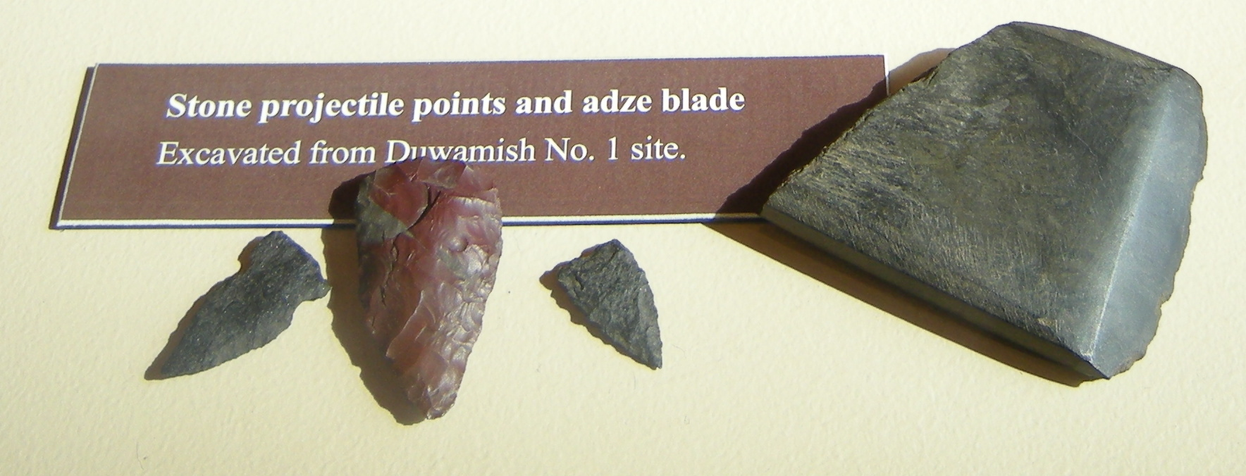 Artifacts from Duwamish No. 1 site, Duwamish Longhouse and Cultural Center, Seattle, Washington. Duwamish No. 1 site (location undisclosed) is an archeological site listed on the National Register of Historic Places. This image shows a set of stone "projectile points" (presumably arrowheads) and a stone adze blade.